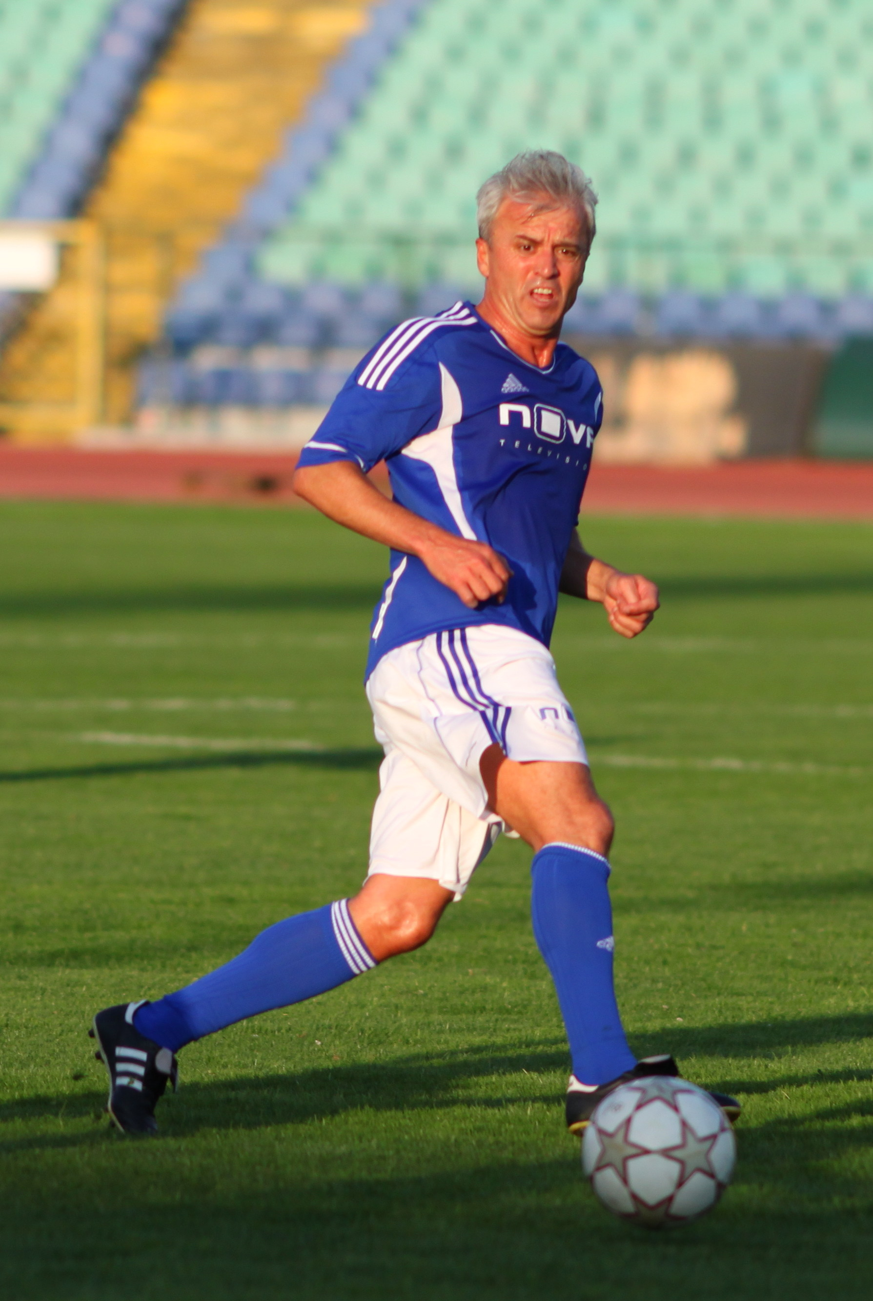 Doncho Donev - former bulgarian soccer player